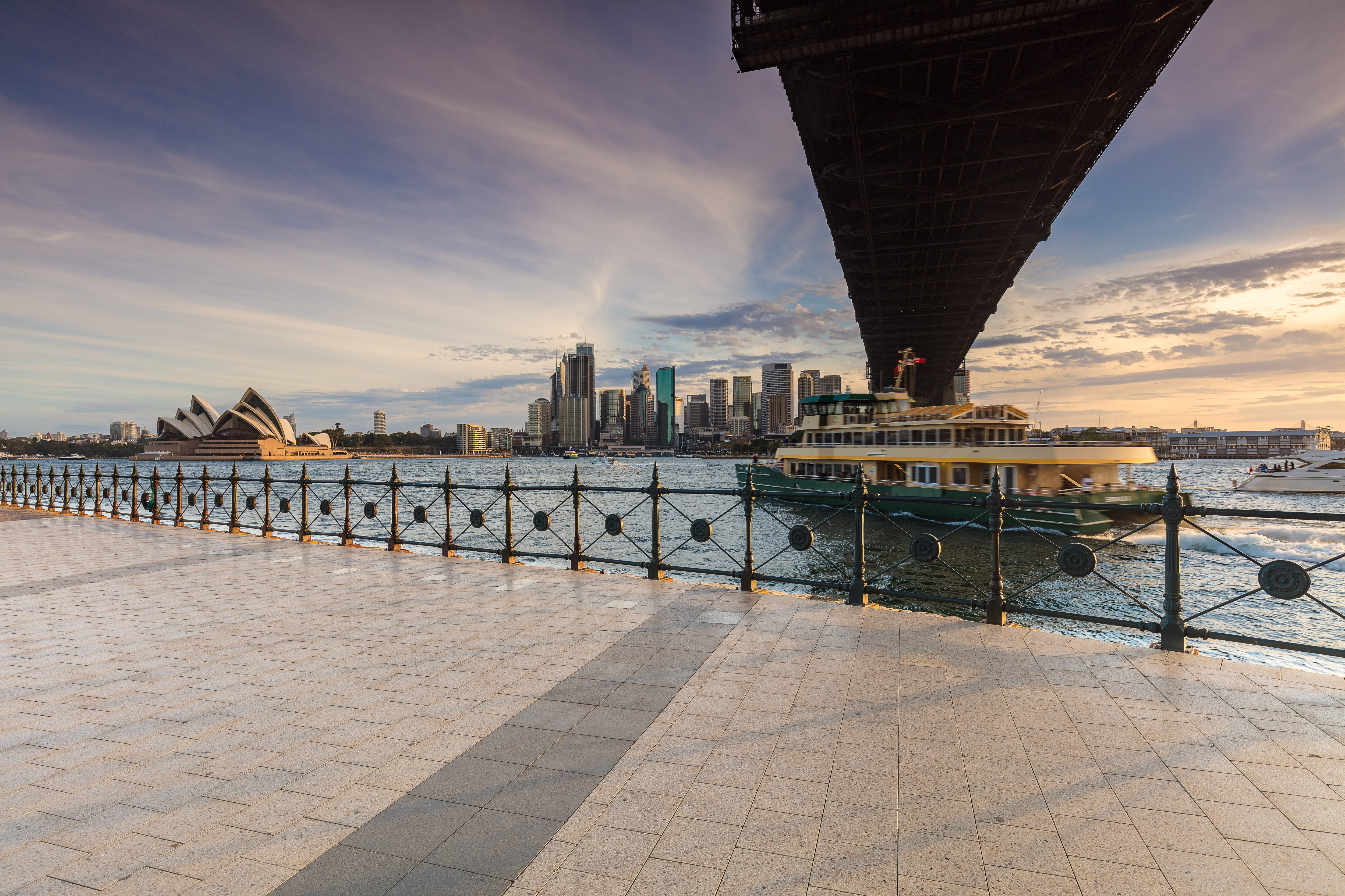 Milsons Point UrbanStone